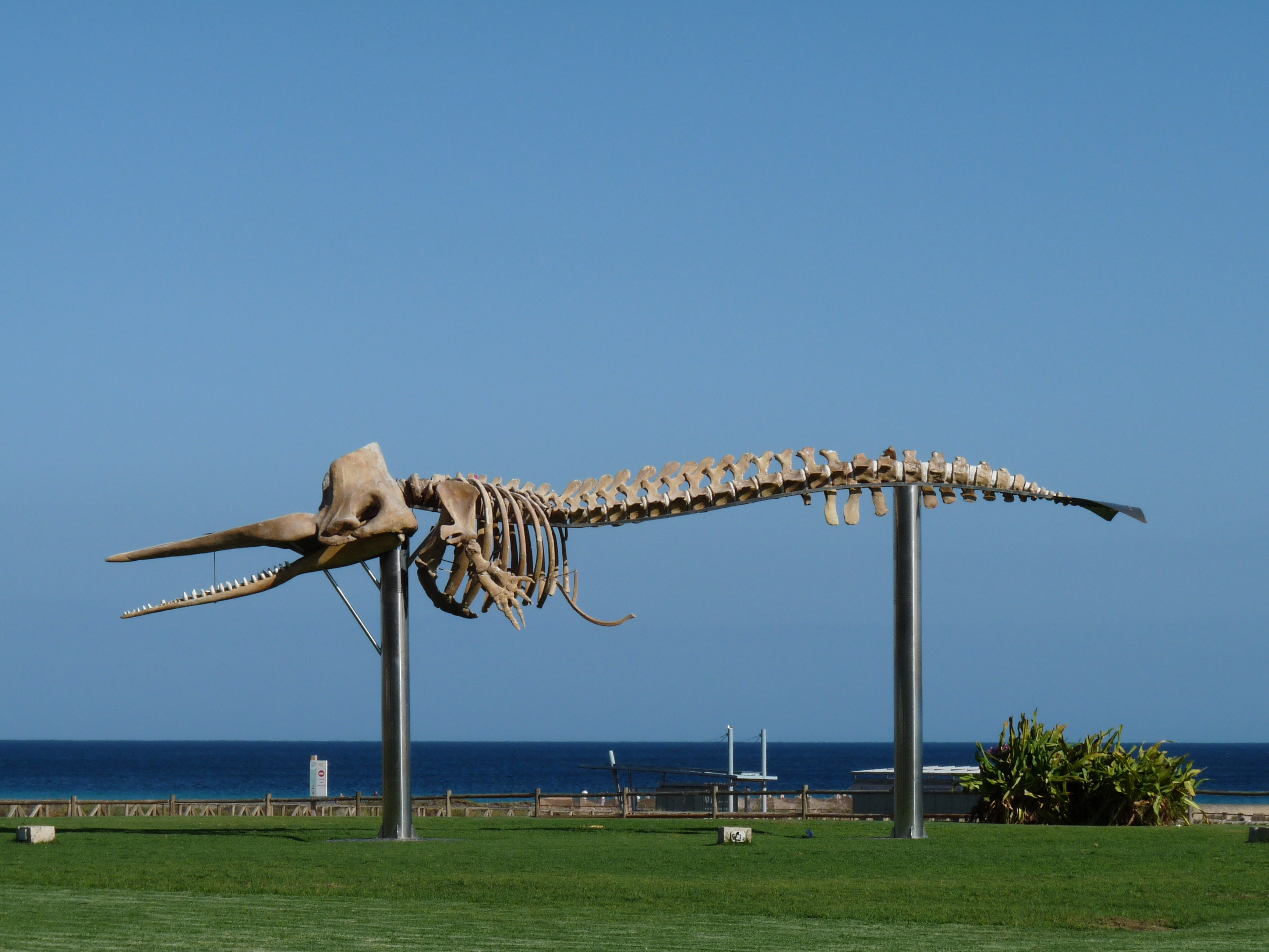 sculpture of a sperm whale in Solana Matorral (Fuerteventura)